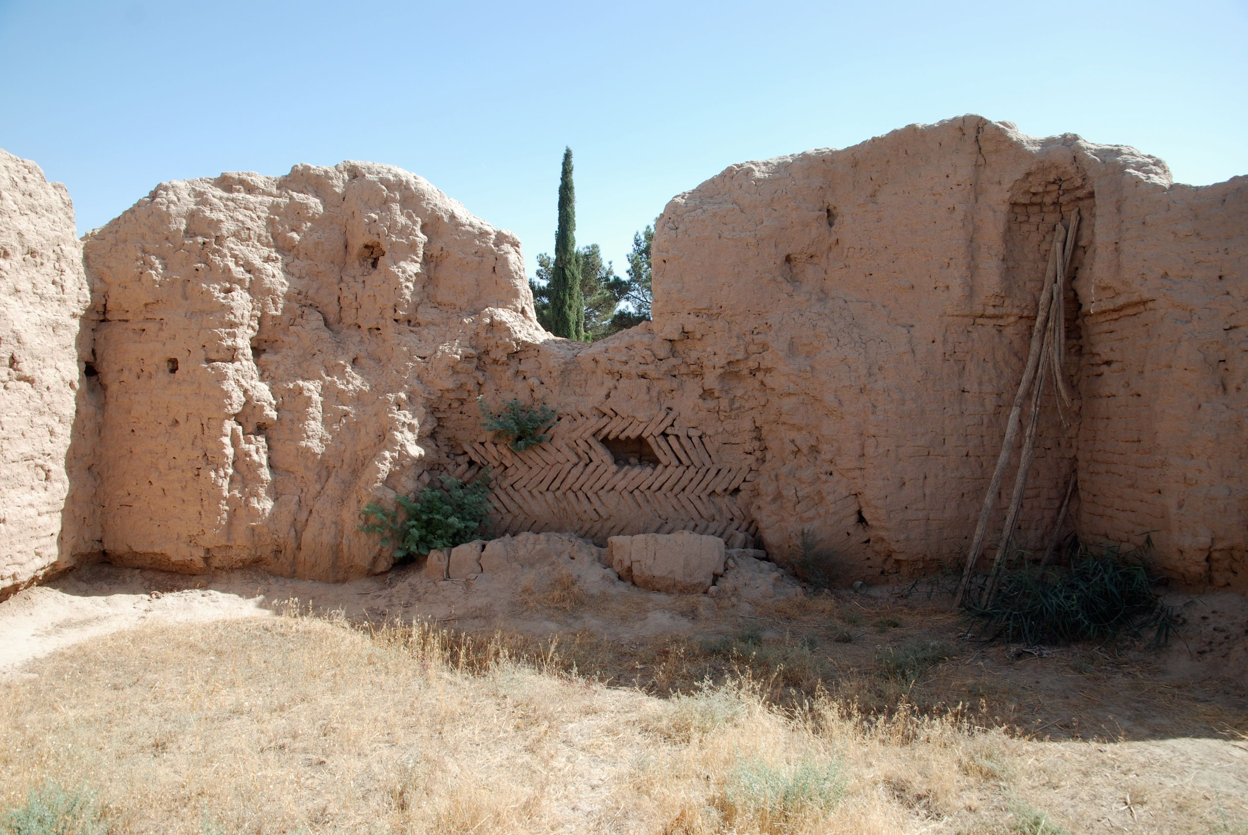 Khoja Sarboz, 5 km south of Shahrtuz